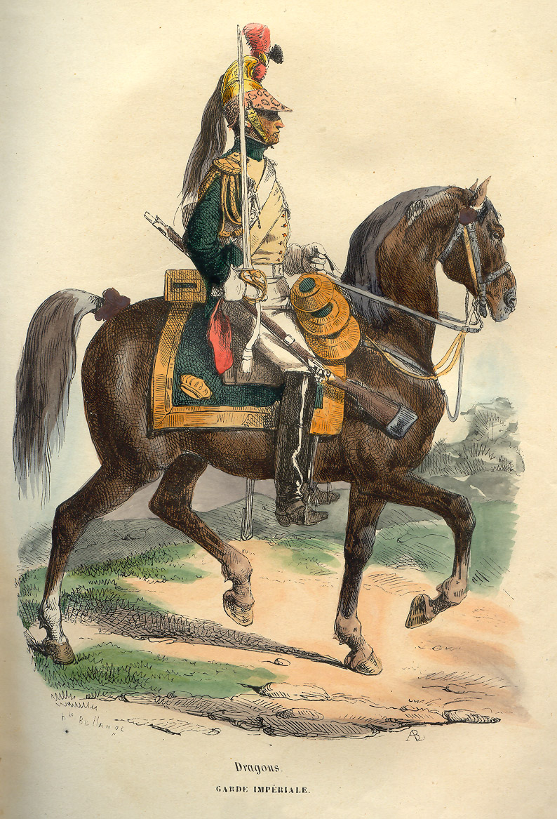 Empress dragoon from the Imperial Guard of the Grande Armée. From book of P.-M. Laurent de L`Ardeche «Histoire de Napoleon», 1843